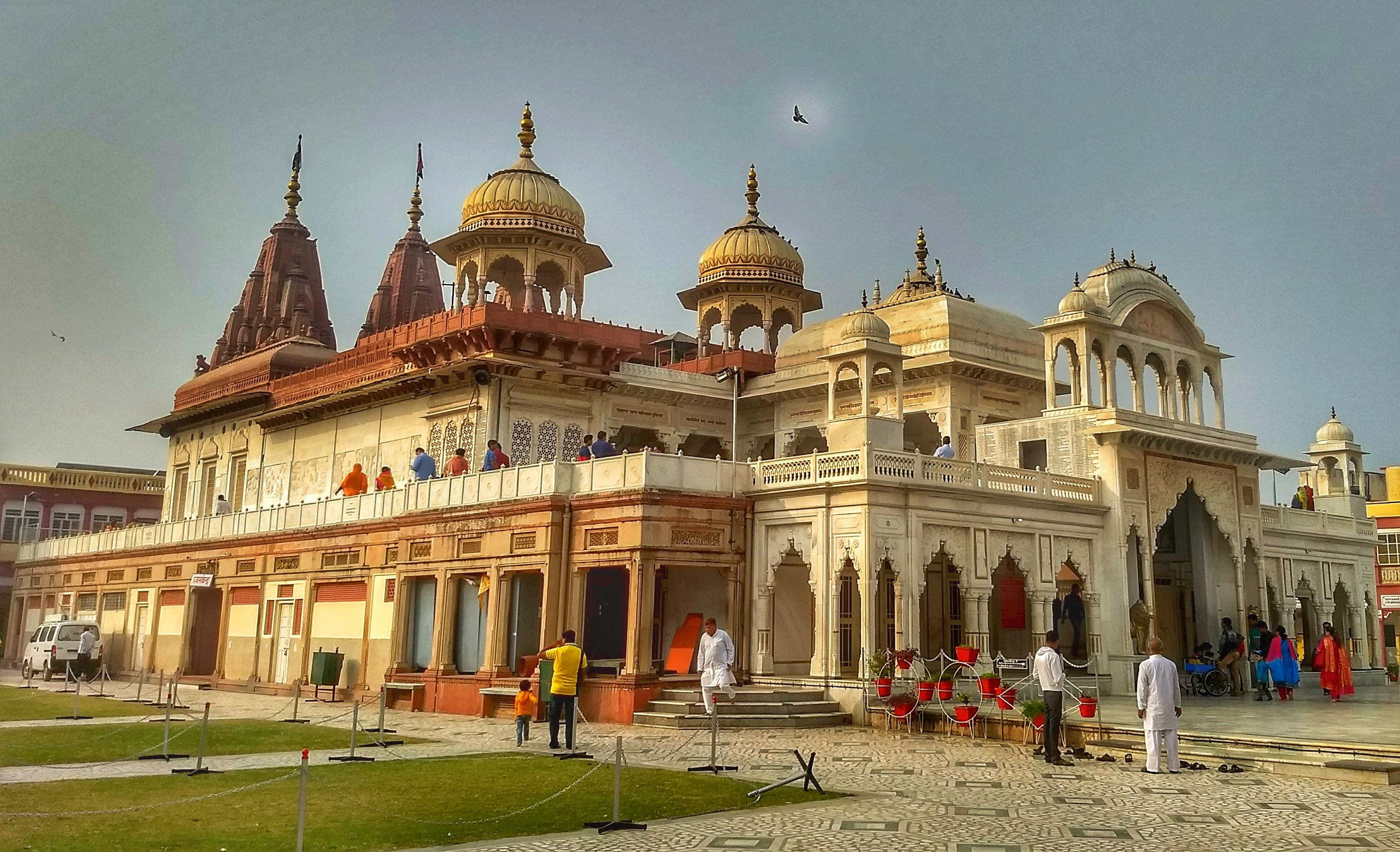 Shri Mahavir Ji temple